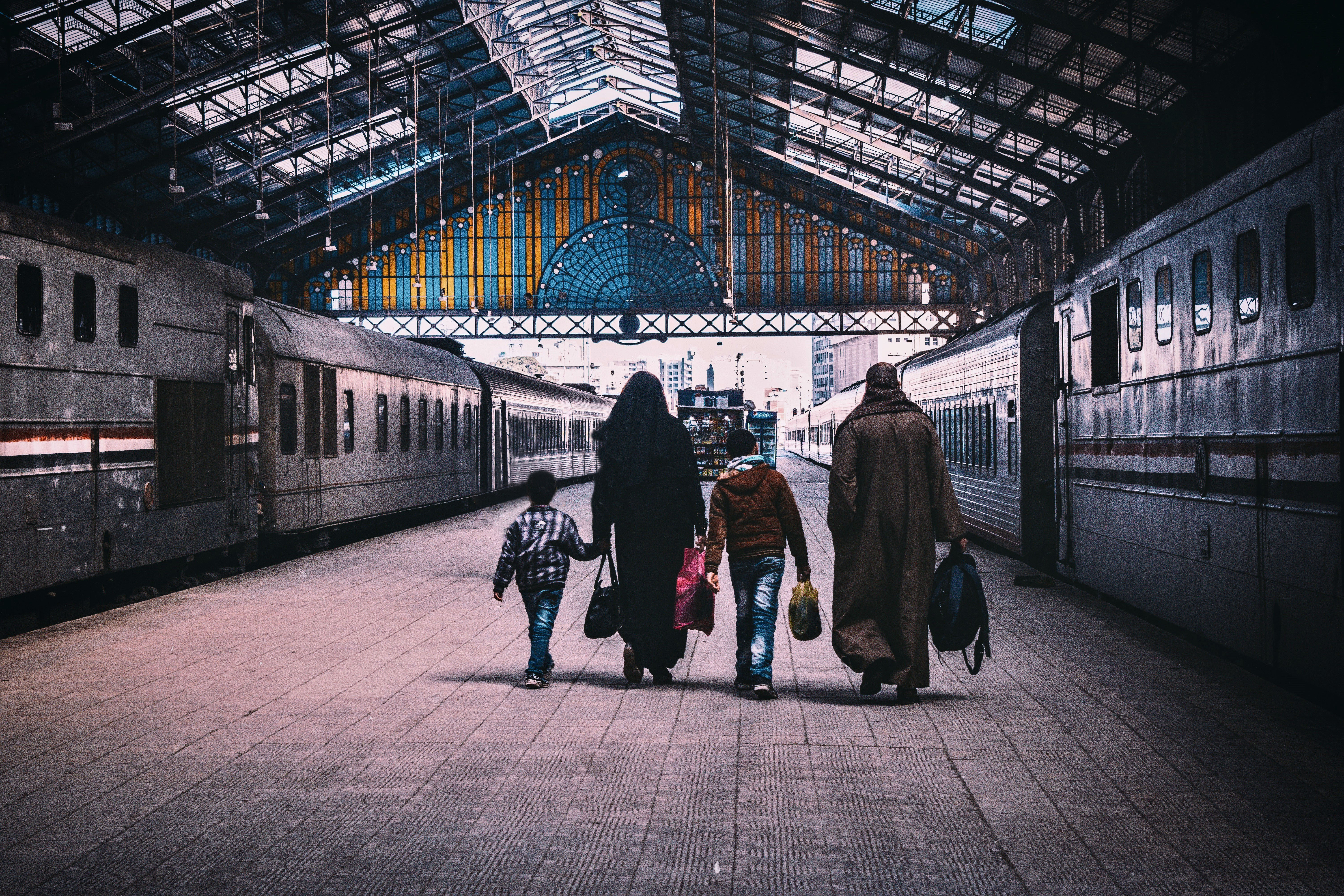 This is an image with the theme "Africa on the Move or Transport" from: Egypt